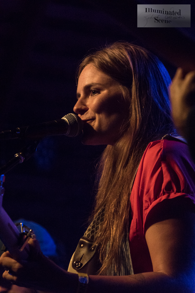 Erin Rae at Codfish Hollow, Maquoketa, IA 7/19/18